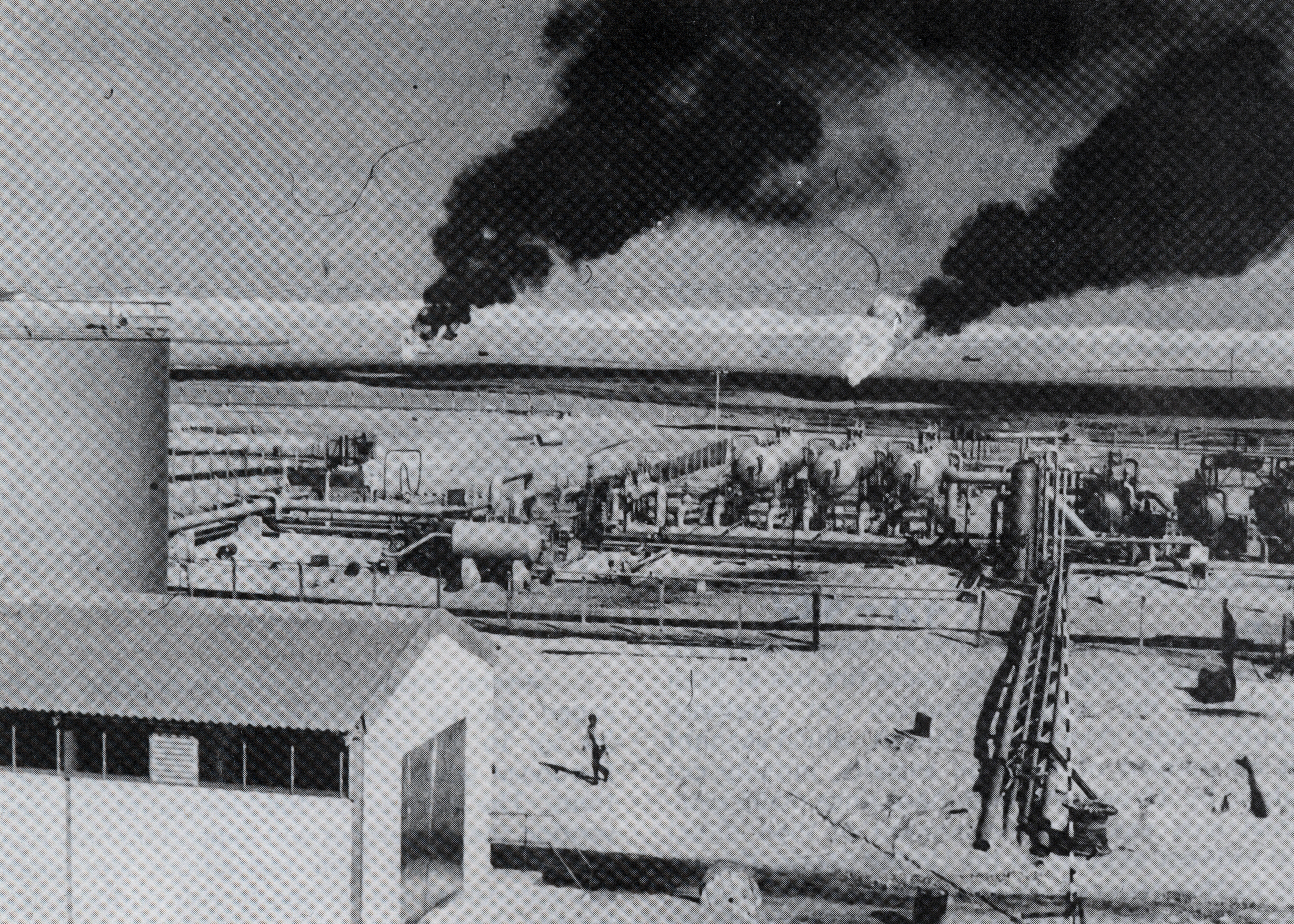 A Libyan oil facility. Libya was one of the Organization of Arab Petroleum Exporting Countries (OAPEC) that embargoed the sale of oil to the U.S. from October 1973 to March 1974. From the booklet "President Nixon and the Role of Intelligence in the 1973 Arab-Israeli War." For more information, visit